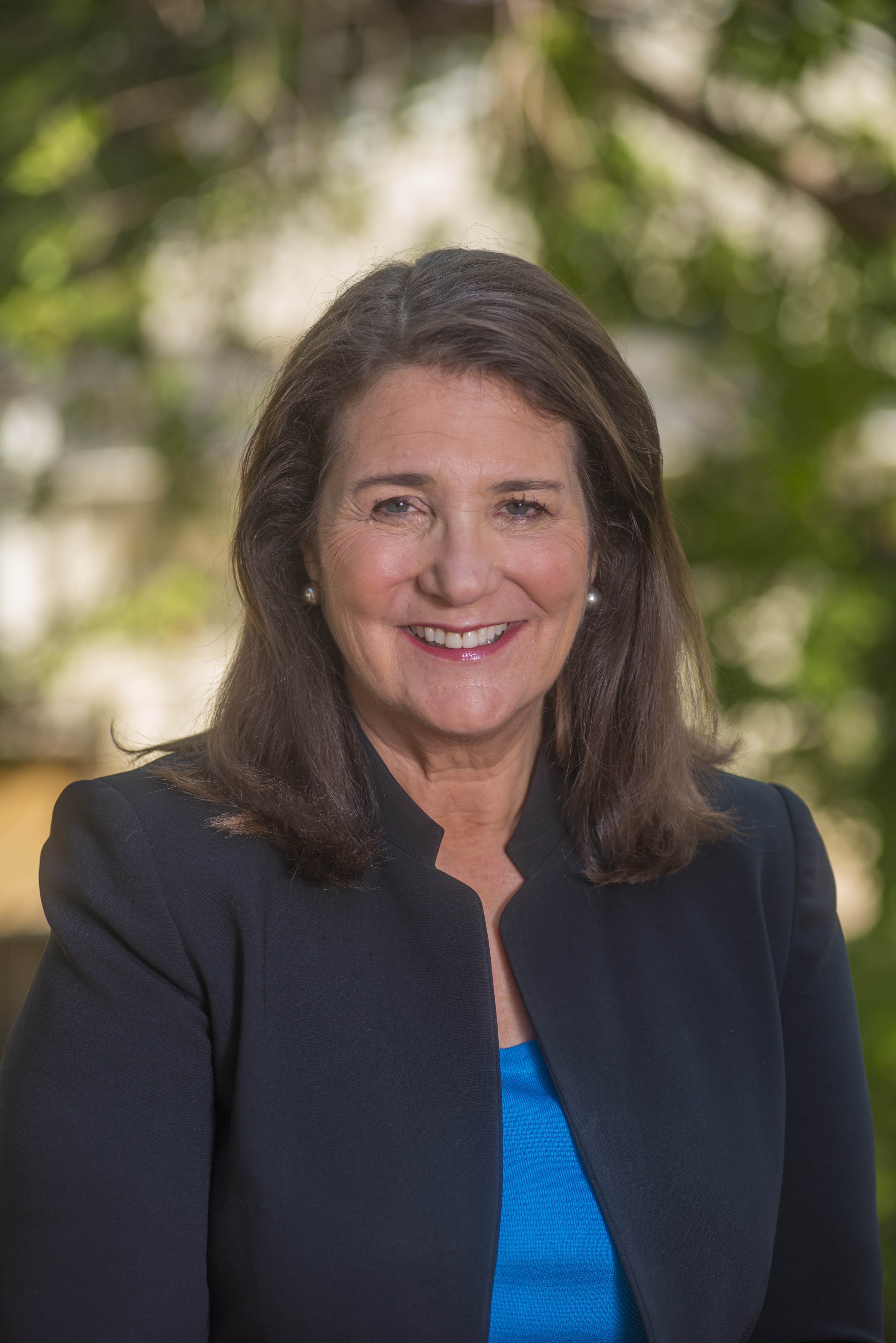 Diana DeGette official photo